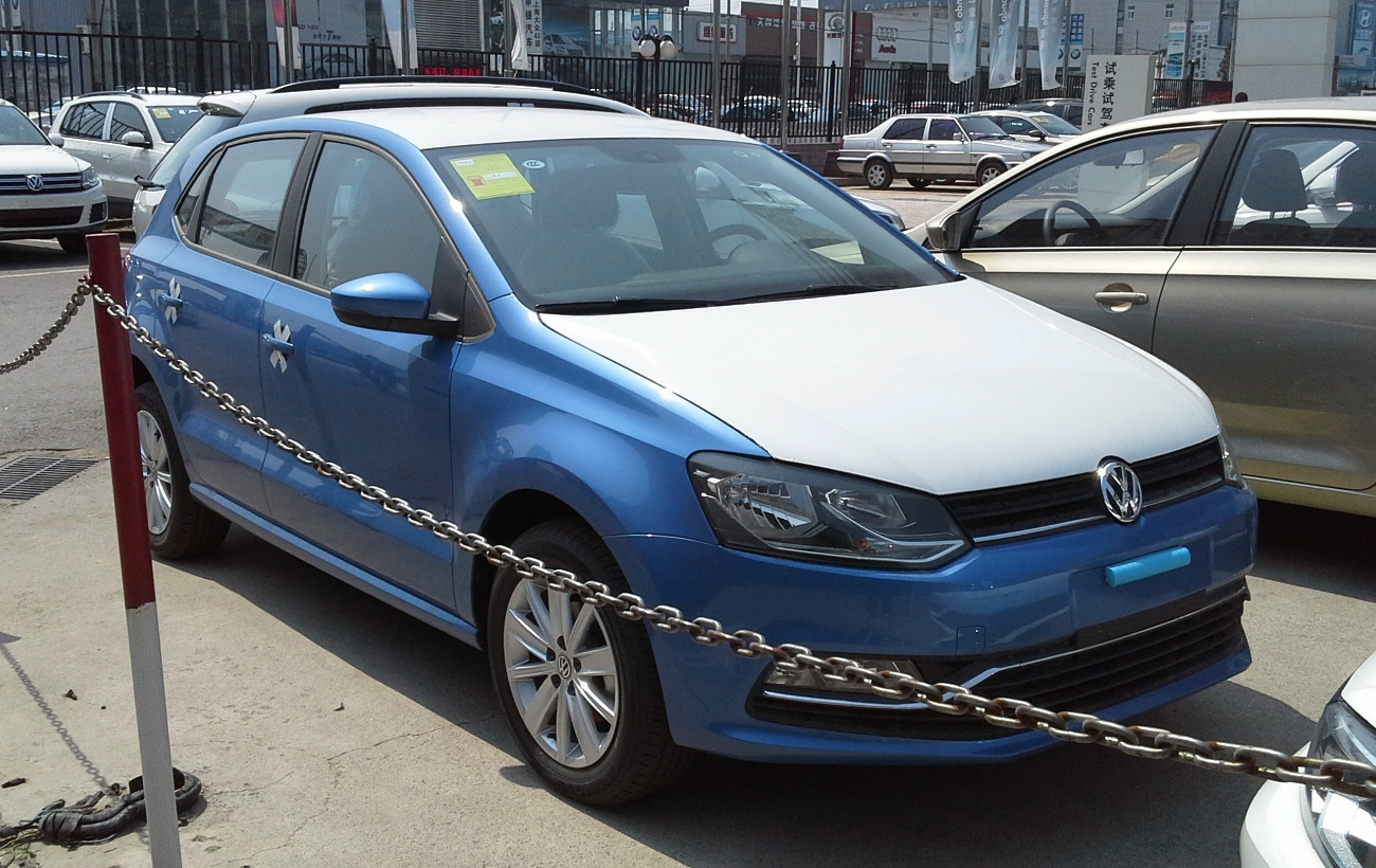 Volkswagen Polo V facelift photographed in Beijing, China.